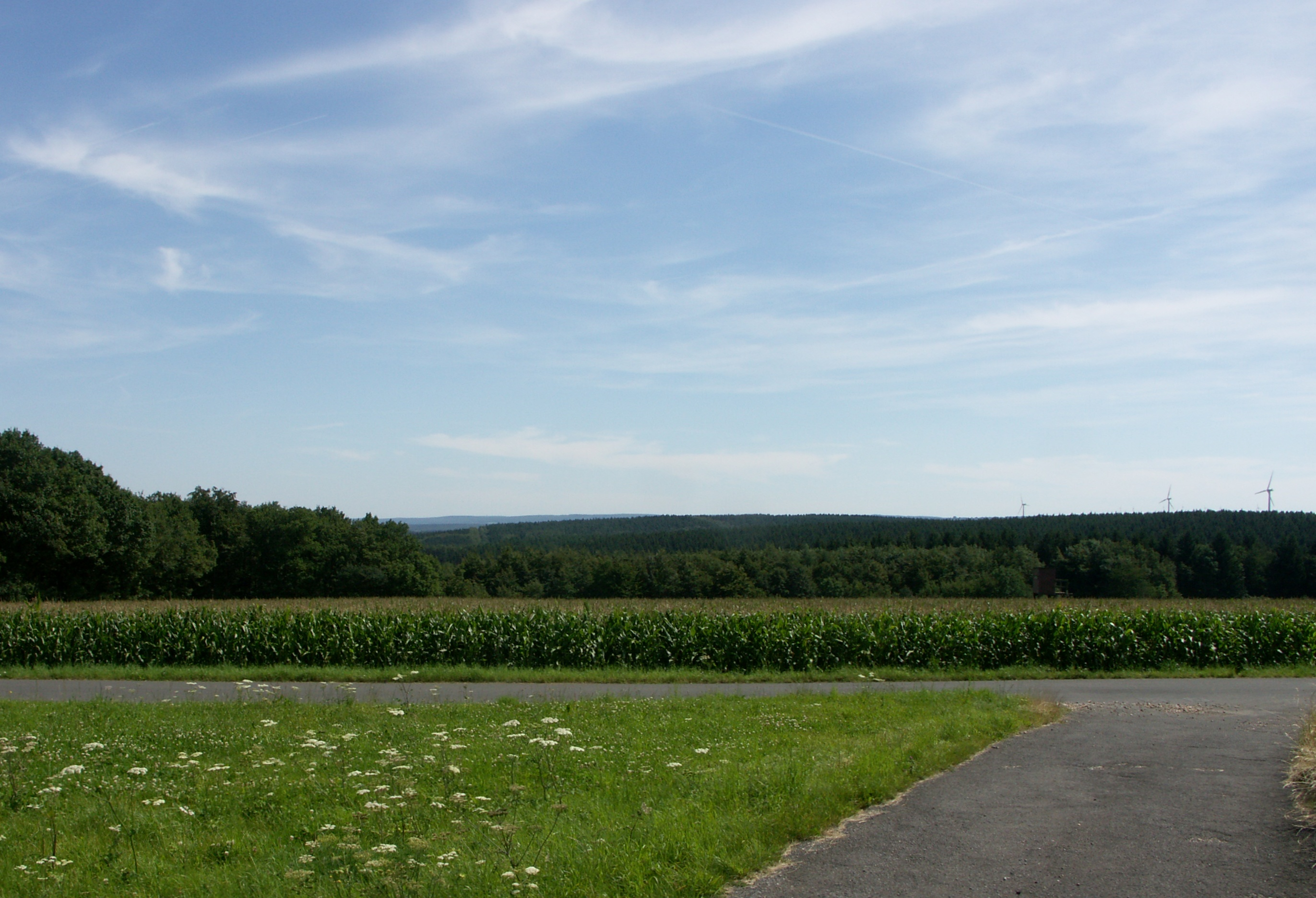 Impression of the landscape of Hürtgenwald, Germany, standing northeast of Kleinhau looking south